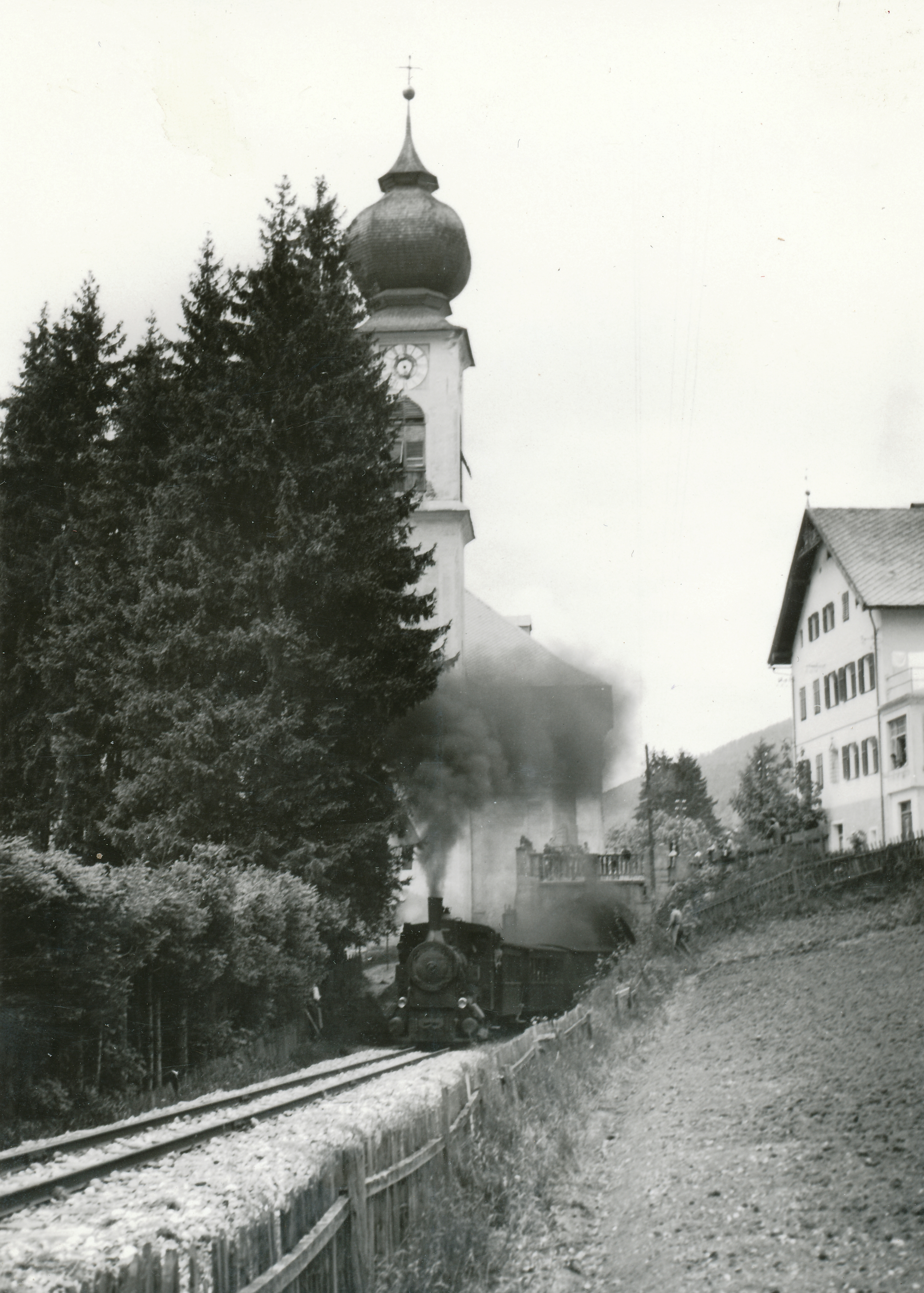 Val Gardena train, last run on day May 28, 1960. Foto by Alex Moroder